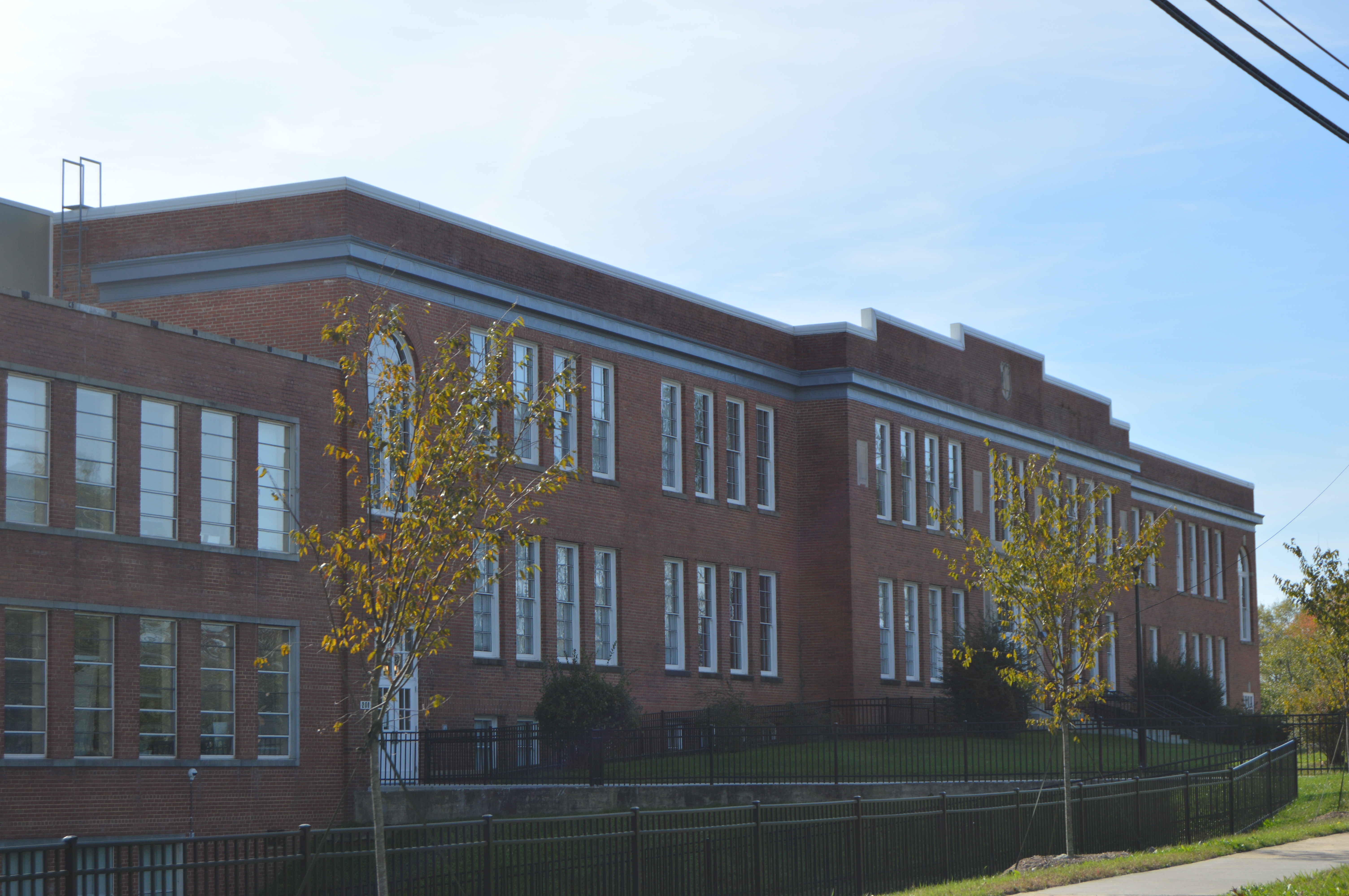 Front of Hillside Park High School, located at 200 E. Umstead Street in Durham, North Carolina, United States. Built in 1922, it is listed on the National Register of Historic Places.